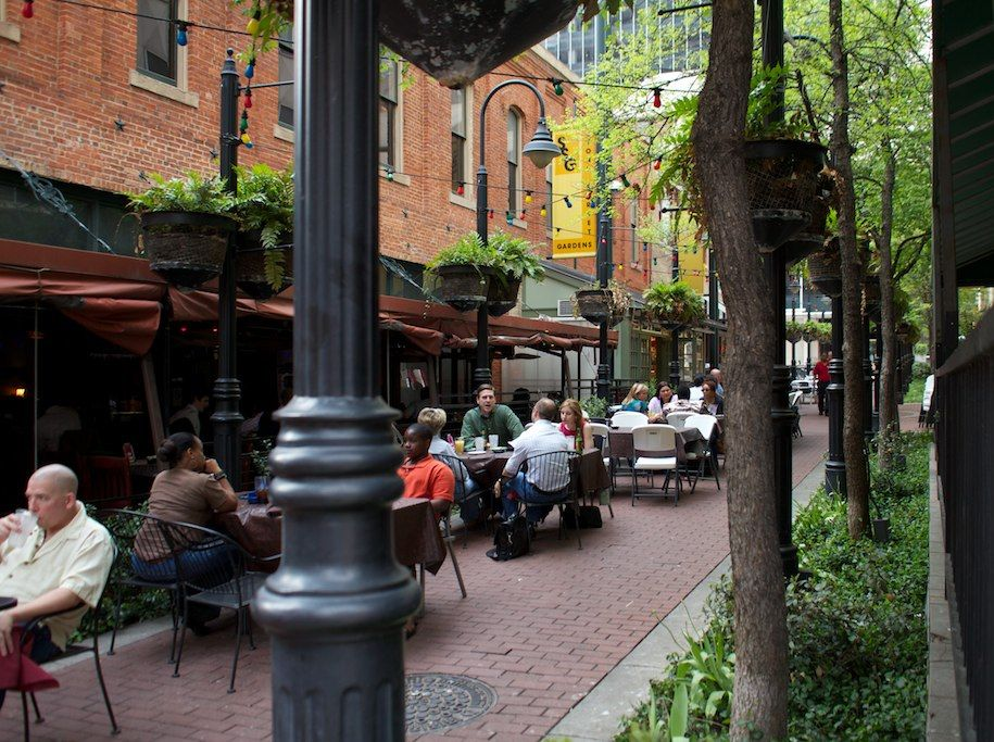 Stone Street Gardens in Downtown Dallas is an oasis in the midst of the bustling city, lined with quaint bistros, restaurants and pubs for residents, office workers and visitors alike. Stone Street Gardens connects Main and Elm Streets and offers an enjoyable spot with indoor and outdoor seating, interesting architecture, cool happy hour and nightspots, and a pleasant place for lunch alone or with a friend.